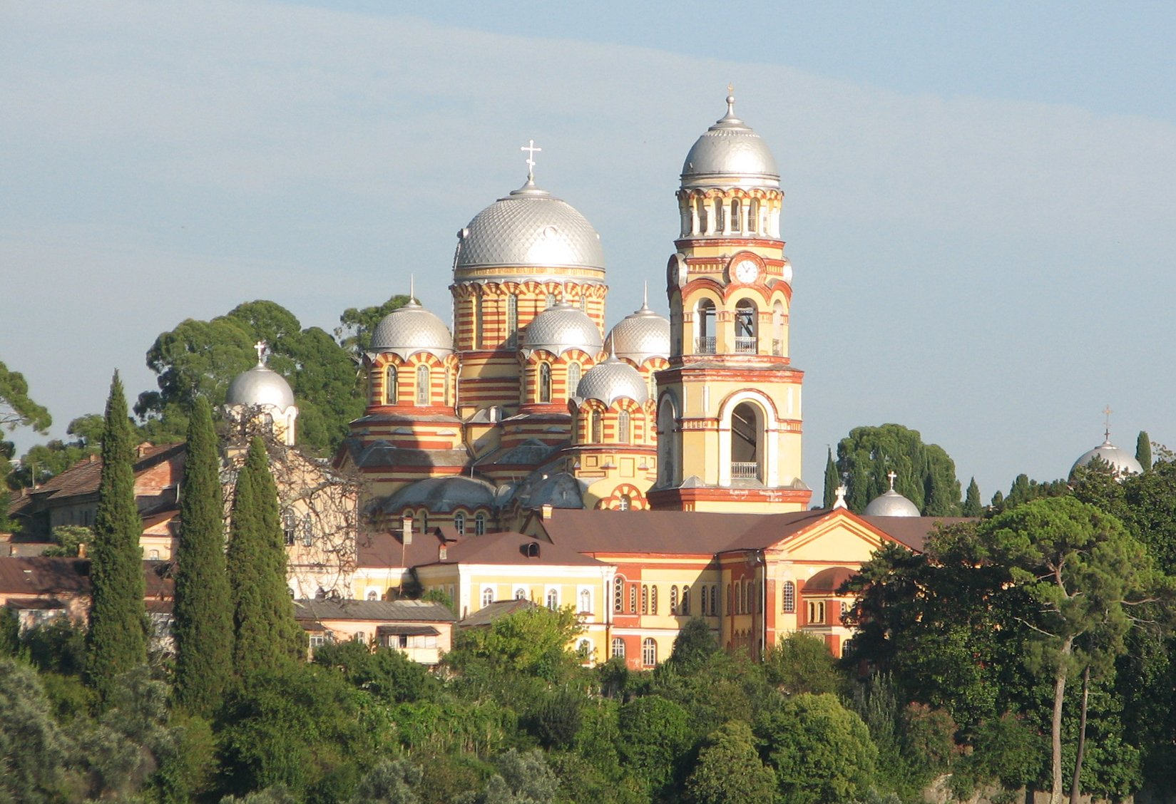 New Athos monastery. Photo from the entrance to the New Athos Cave (Abkhazia)